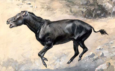 Crop of file in filename